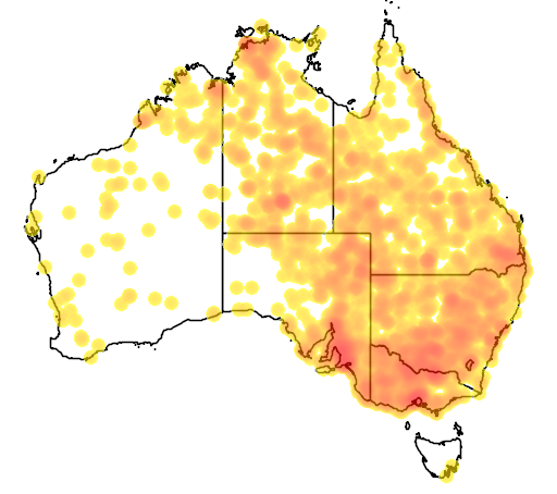 Image of records of the Black Falcon, Falco subniger, courtesy Atlas of Living Australia and Australian Faunal Directory. Other information The image has been taken from the Atlas of Living Australia website, see link provided for evidence of license - bottom left of page. The website distributes information provided a range of data providers and states that data providers may have their own license restrictions. In this instance the original data source is the Australian Faunal Directory who also allow use of their data under the CC-BY license, see link here